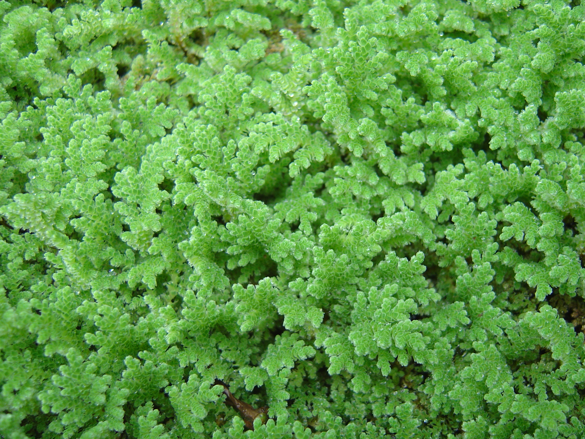 Photograph of Pacific mosquitofern (Azolla filiculoides) growing in a tub at the botanical gardens in Münster, Germany